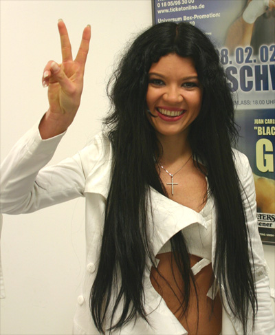 Ruslana in Braunschweig, Germany, 07.05.2007